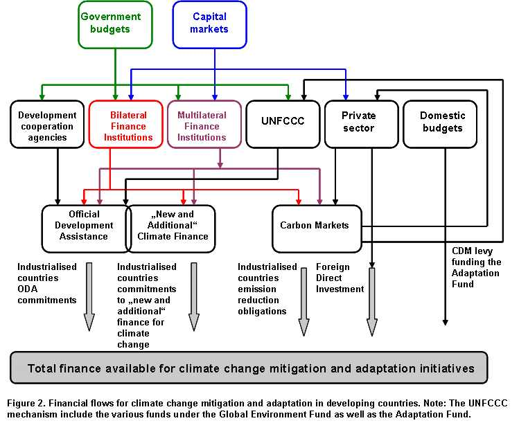 Flow diagram